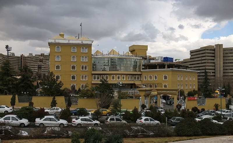 Ekbatan